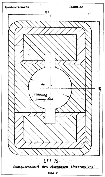 Diagram showing the cross-section of a linear motor cannon from a German report.